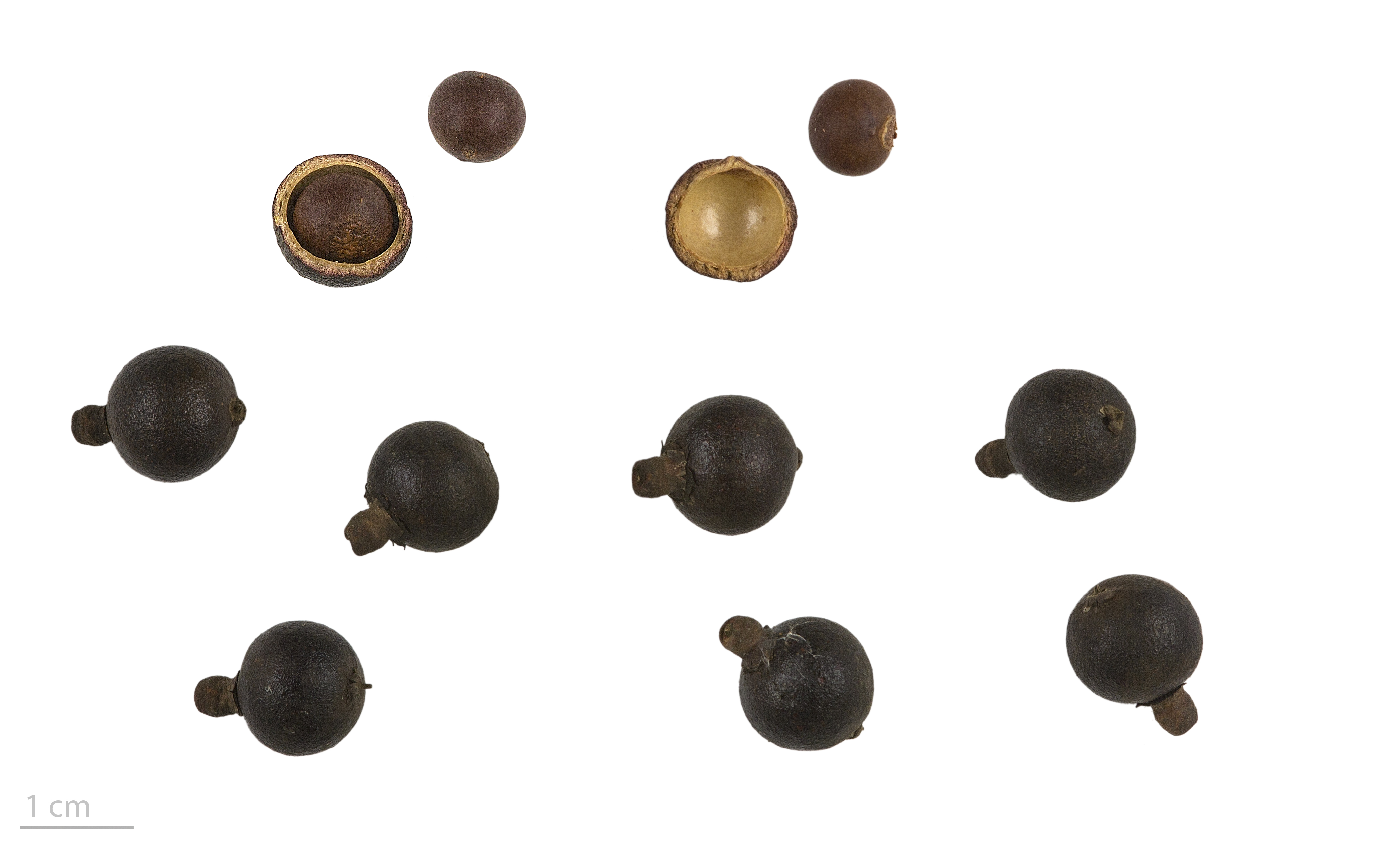 Pritchardia pacifica, Fiji Fan Palm, seeds